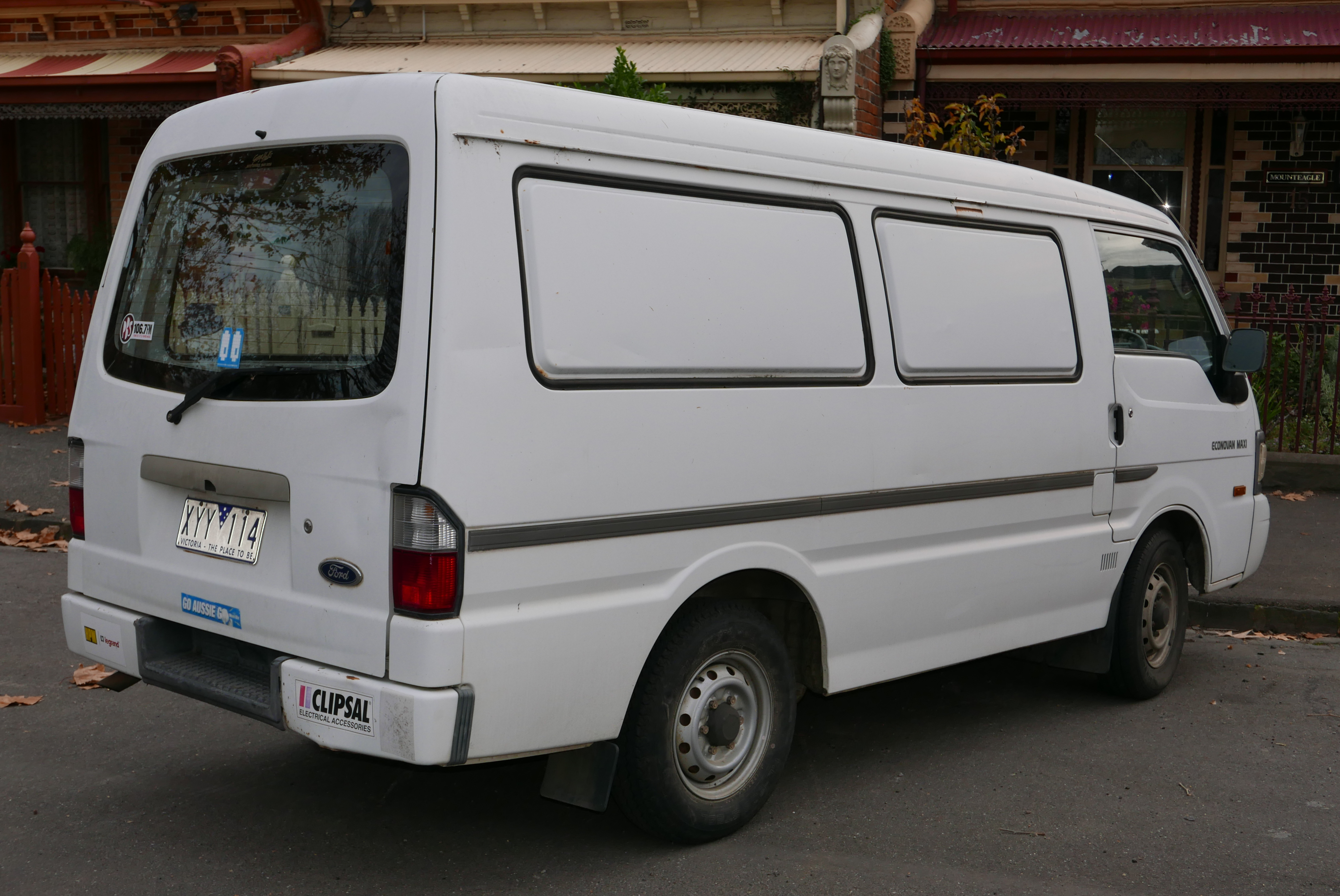 2002 Ford Econovan (JH) Maxi MWB van. Photographed in Fitzroy North, Victoria, Australia. Vehicle registration enquiry resultsJurisdictionVictoriaRegistrationXYY114Chassis codeJC0AAASGME1E15445Engine codeFE432536Compliance date2002-01Year of manufacture2002